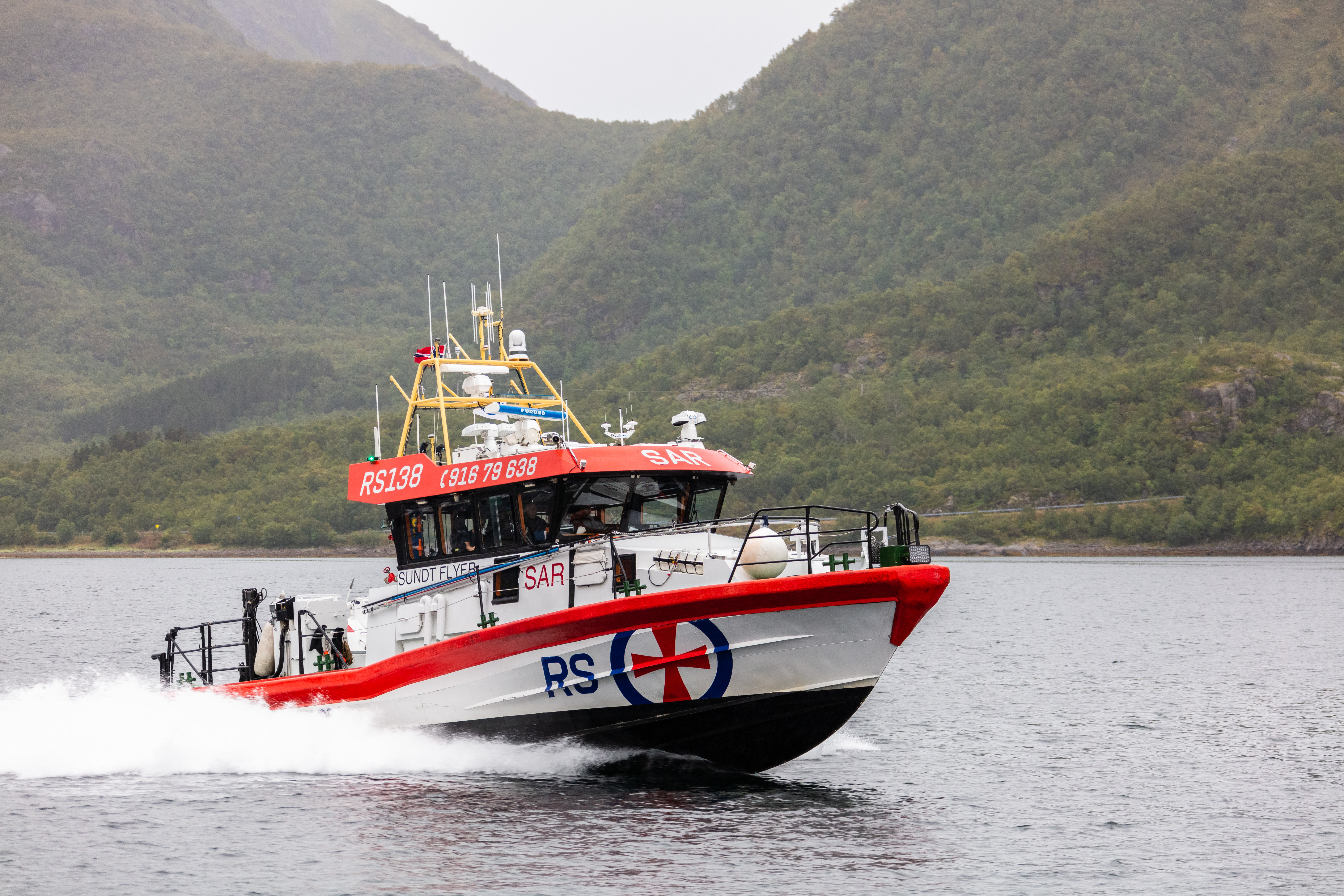 Rescue boat, Svolvær, Lofoten, Norway